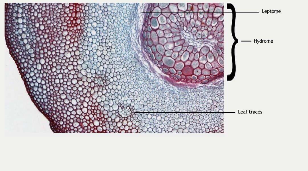 Cross section of a Dawsonia stem - image taken from the interactive UNSW virtual slides database - The database is available free of charge for educational purposes